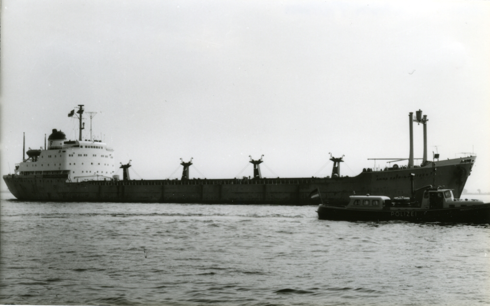 Bulk carrier ANNA KATRIN FRITZEN (IMO 5018569) built at AG Weser, Werk Seebeck, Bremerhaven/Germany (yard № 828, launched: 08-08-1958, delivered: 11-1958) for Johs. Fritzen & Sohn, Bremen/Germany, 1973 renamed KATRIN (Auto Tptn Co SA, Piraeus/Greece), BU Bilbao/Spain 18-02-1977; collection J. Robert Boman (1926 - 2002) owned by Sjöhistoriska museet.